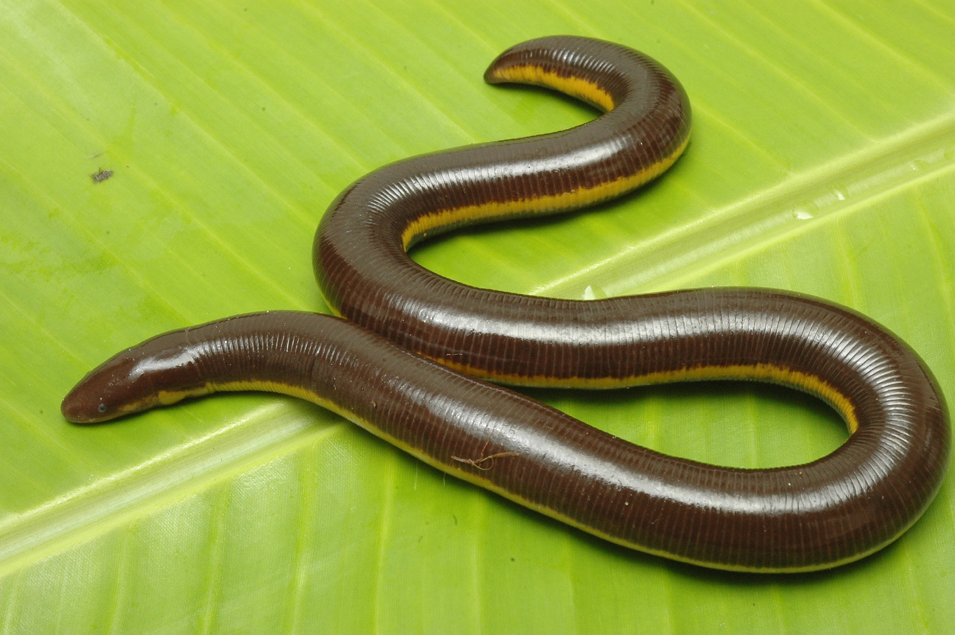 Caecilian Ichthyophis kodaguensis from Basarekattae, Western Ghats, India